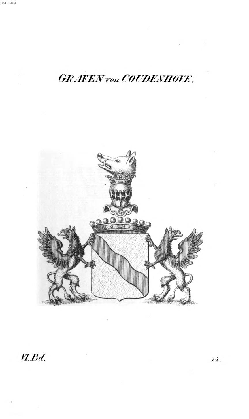 Wappen Coudenhove - Tyroff AT.jpg